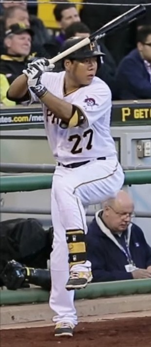 Jung-ho Kang hitting in a game